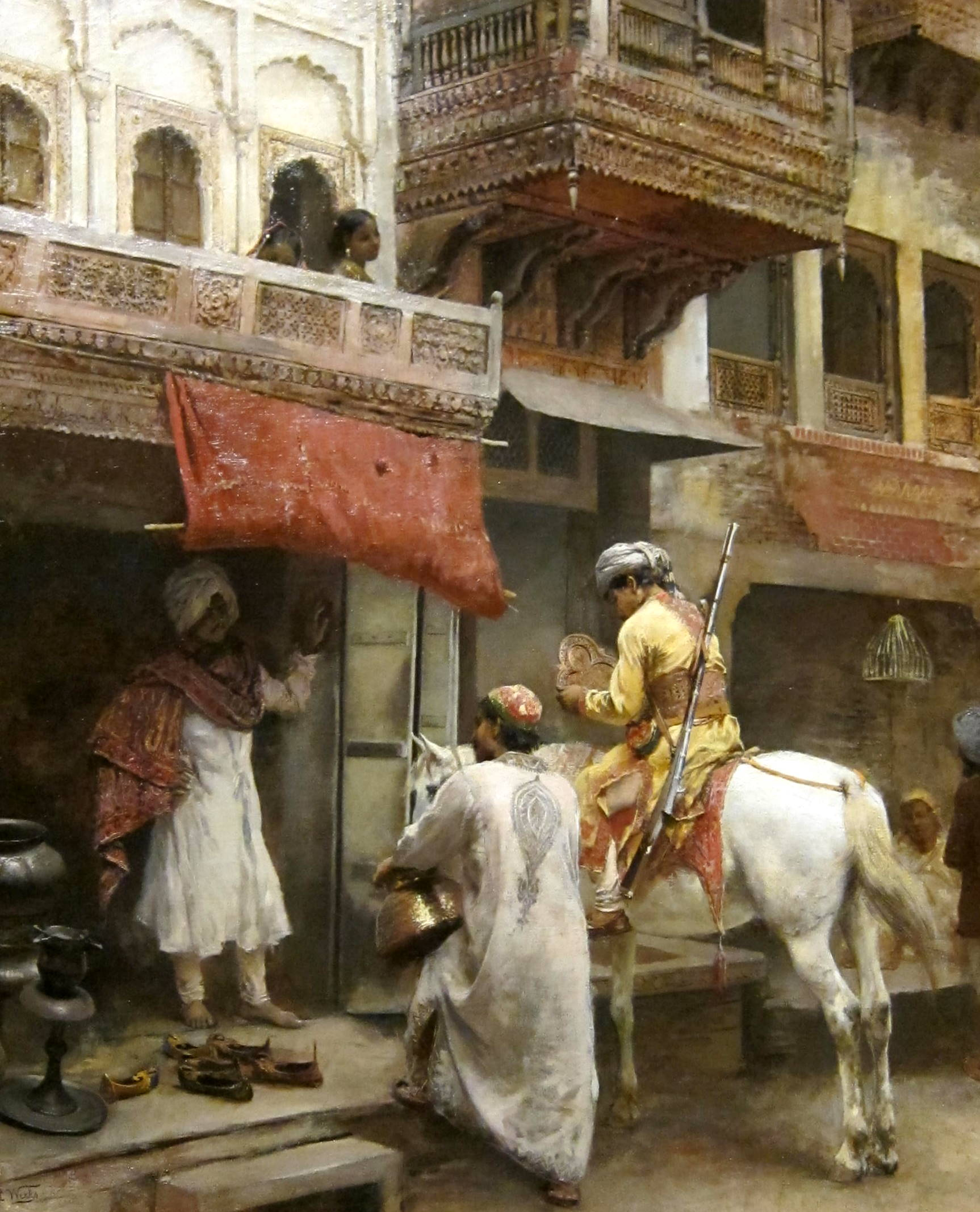 Street Scene in India (about 1884–1888, Edwin Lord Weeks) housed in the Renwick Gallery in Washington, D.C.